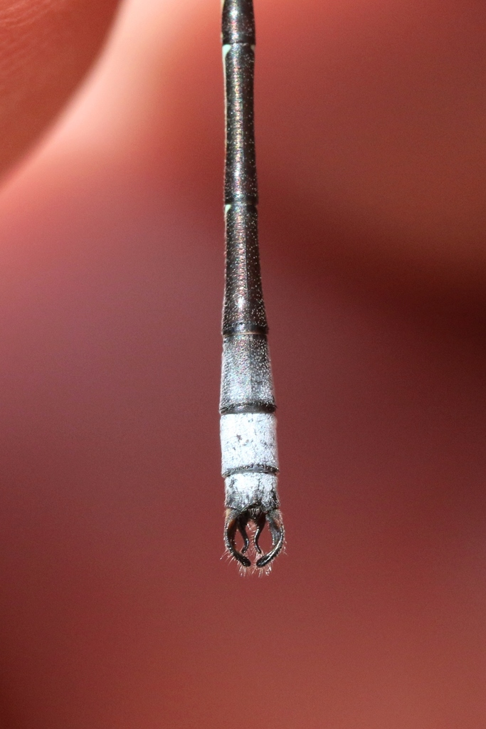 Lyre-tipped Spreadwing (Lestes unguiculatus), Bassin des Pigamons, Quartier 4-2, Québec, QC, Canada